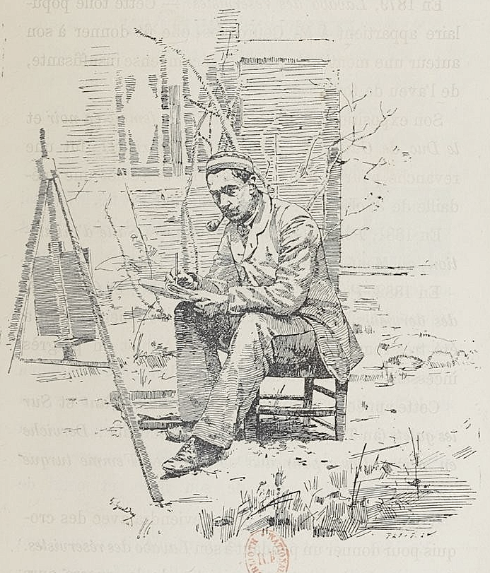 Autoportrait by Gueldry, drawing, published in Nos peintres dessinés par eux-mêmes by Mlochowski de Belina (Paris, 1883).